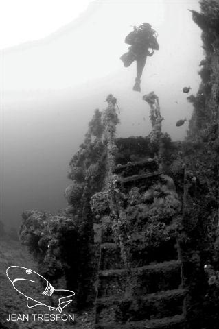 Wreck of the SAS Pietermaritzburg, Cape Peninsula.